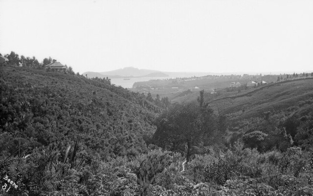 Grafton Gully in Auckland City, New Zealand in 1863, looking north from todays Khyber Pass Road area (approximated) towards Rangitoto Island. Extended information on origin webpage reads:Grafton Gully, Auckland, looking north 1863 / Reference number: 1/2-096099-G 1 b&w original negative(s). Wet collodion glass negative 4.5 x 7.25 inches. / Part of Beere, Daniel Manders, 1833-1909 :Negatives of New Zealand and Australia (PAColl-3081) Photographic Archive, / Scope and contents: Grafton Gully, Auckland, looking north towards the Waitemata Harbour with Devonport and Rangitoto in the background, photographed in 1863 by Daniel Manders Beere.